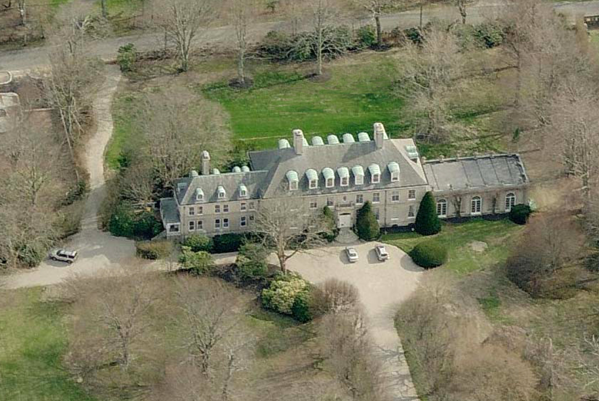 Bois Dore'